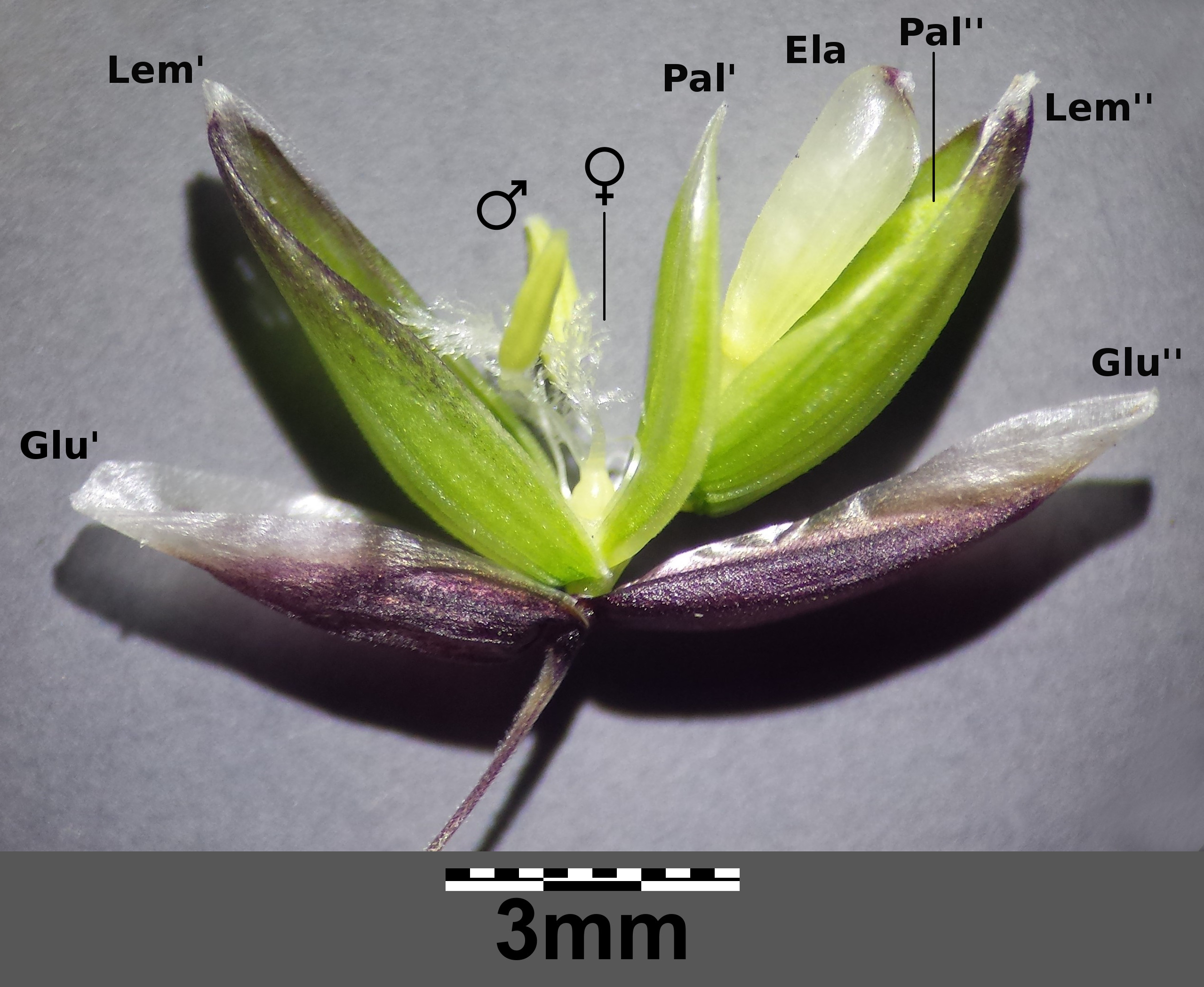 Spikelet At the bottom there are two Glumae (Glu). Above there are three flowers each enfolded by a Lemma (Lem) and Palea (Pal). However the top flower is transmuted to an elaiosome (Ela). Taxonym: Melica nutans ss Fischer et al. EfÖLS 2008 ISBN 978-3-85474-187-9 Location: Rohrwald, district Korneuburg, Lower Austria - ca. 275 m a.s.l. Habitat: deciduous forest